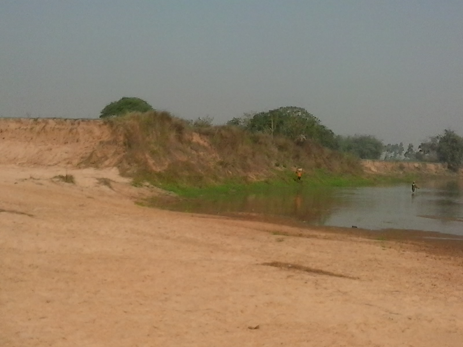 Hinglo met with Ajay river near, Birbhum